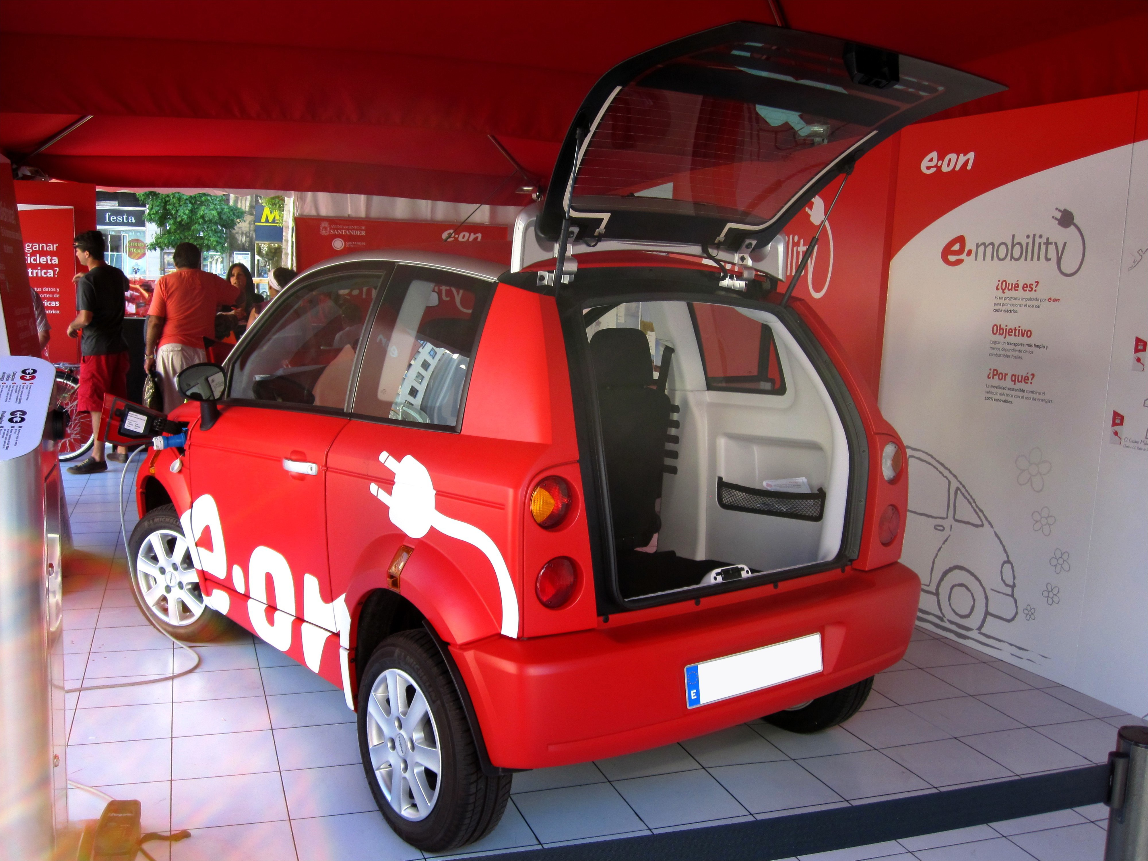 TH!NK City